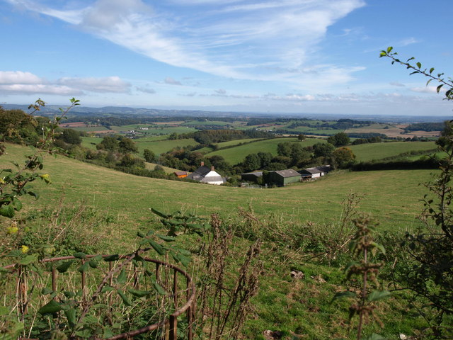 North Down Farm. A wider angle version of the view in 154709; the farm is also shown in 1520850 and 1520834. In the foreground is part of an animal feed basket. Beyond the farm is the valley shown in 1520803, with the Vale of Taunton Deane in the distance.